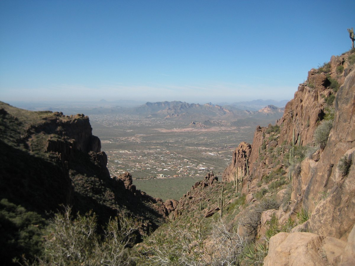 View of Goldfield Mountains from Flat Iron Peak, Superstition Mountian, Arizona.